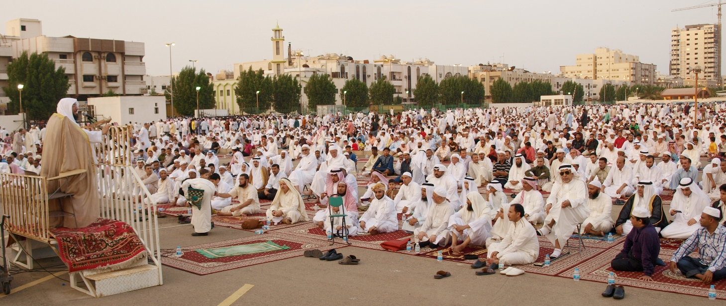 Eidgah, an open-air mosque, in or near Jeddah, Saudi Arabia